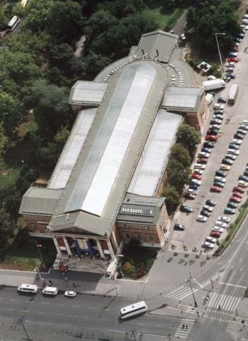 Palace of Art, Aerial photography.